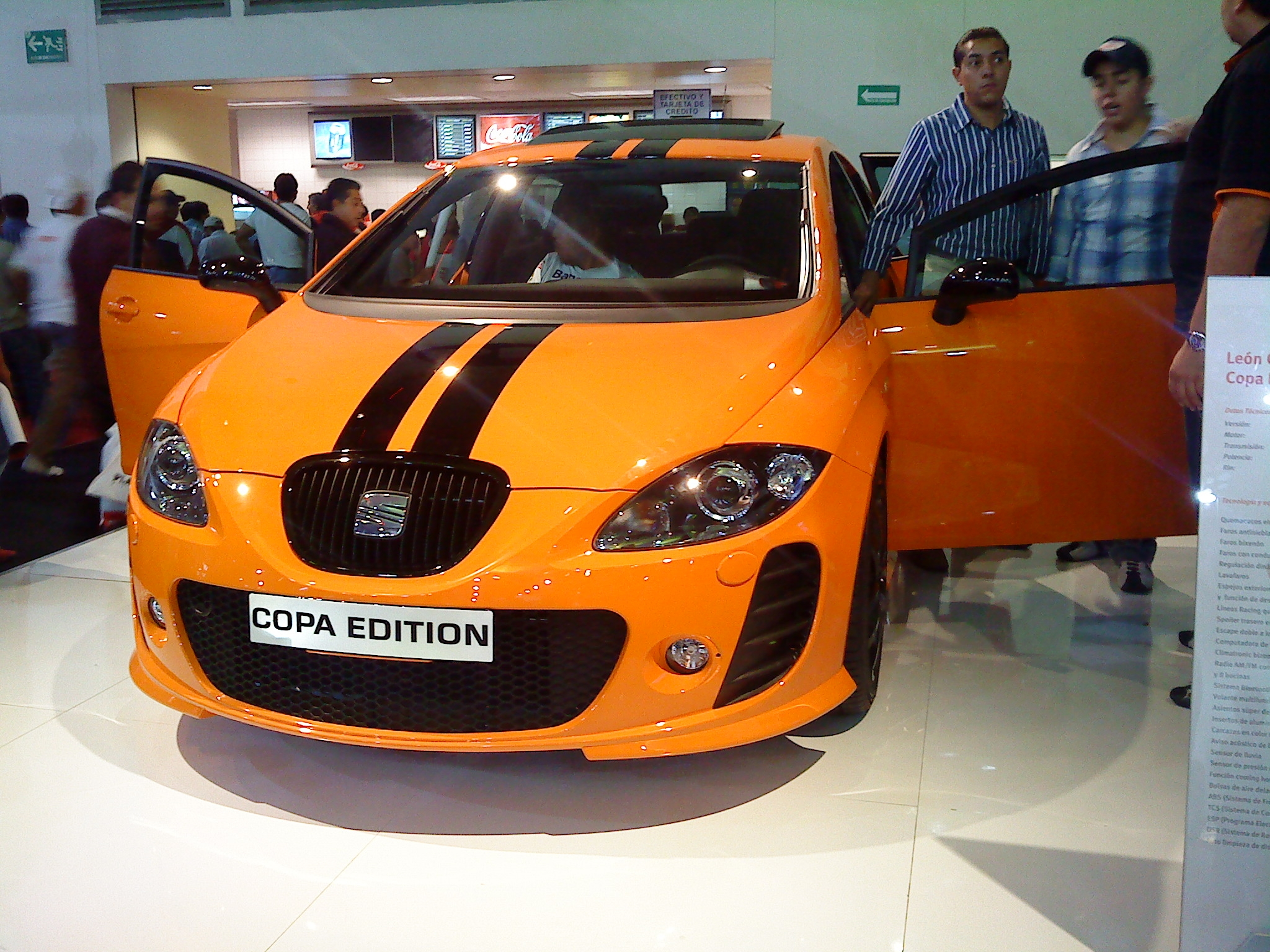 SEAT León Copa Edition at the 2008 SIAM.